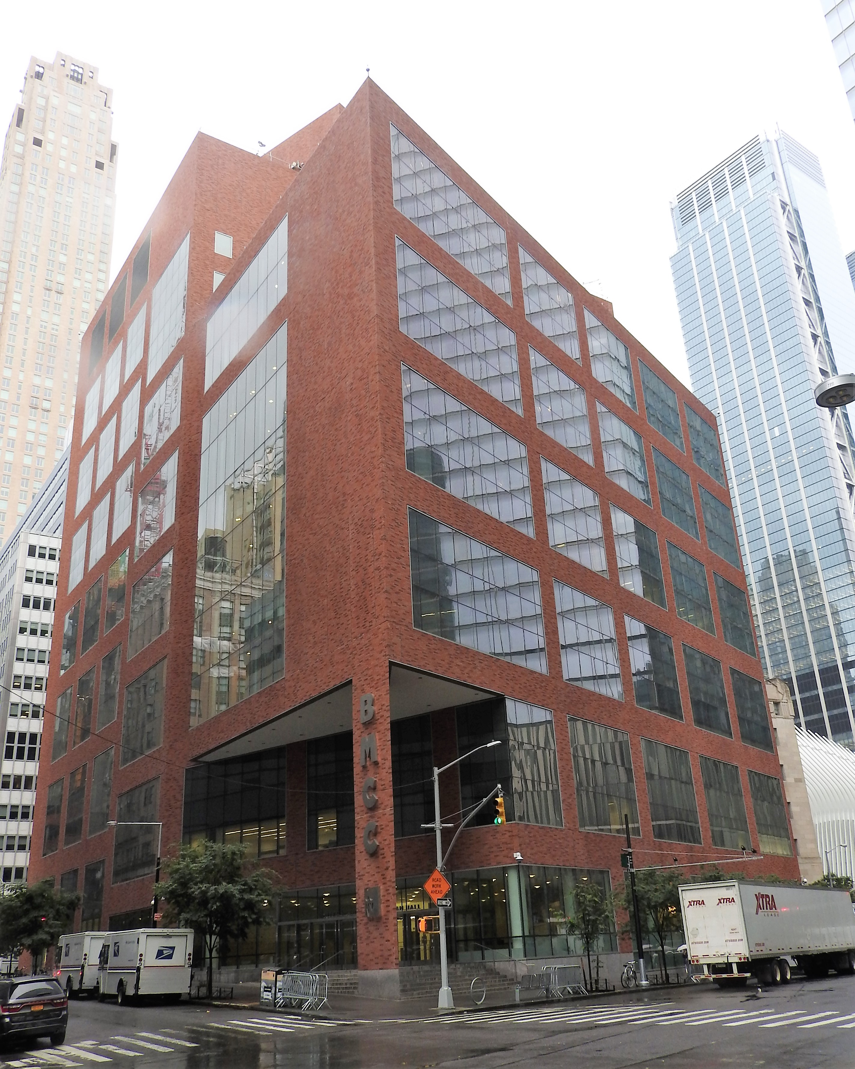 Looking south across Park Place at college building on a rainy day